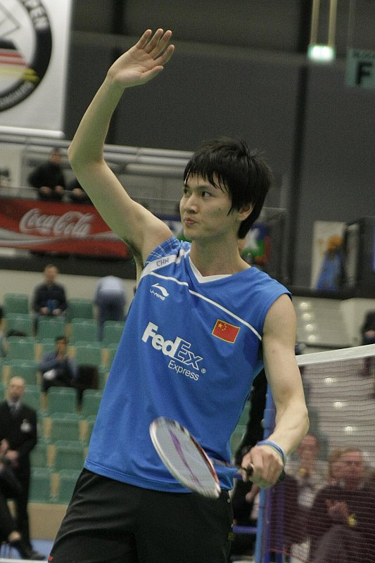 Bao Chunlai